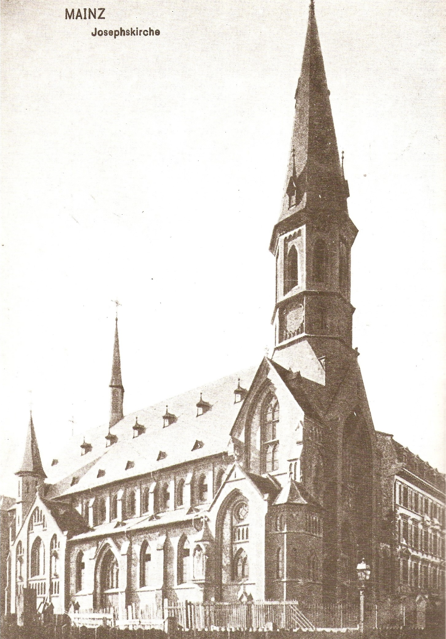 Mainz Church St. Joseph